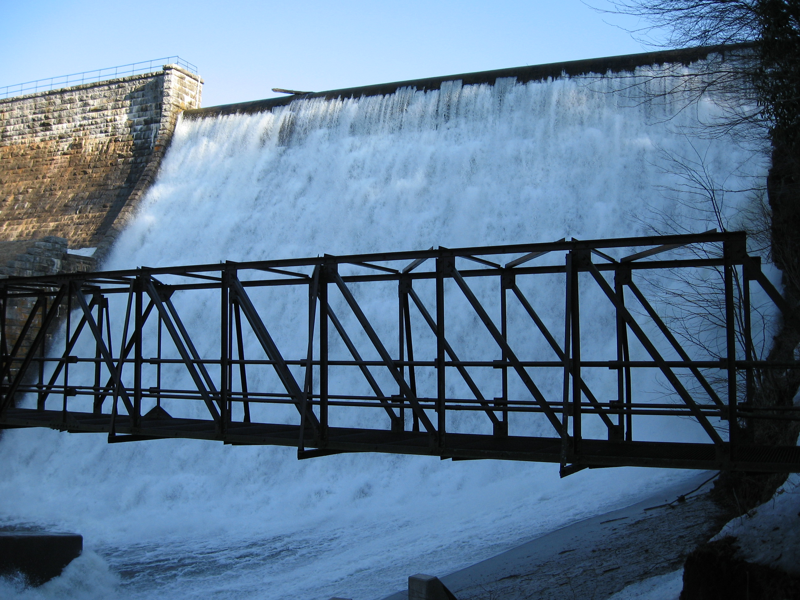 The Nesbitt Dam's cascade at the Nesbitt Reservoir outflow in Springbrook Township off PA-502 — in Lackawanna County, Pennsylvania. The cascade falls are close to a hundred foot drop, and breathtaking to view from the middle of the footbridge (shown in the photo). The reservoir is protected and managed by the Pennsylvania American Water Company. It provides water to area residents and is the second largest contributor to the Lackawanna River.